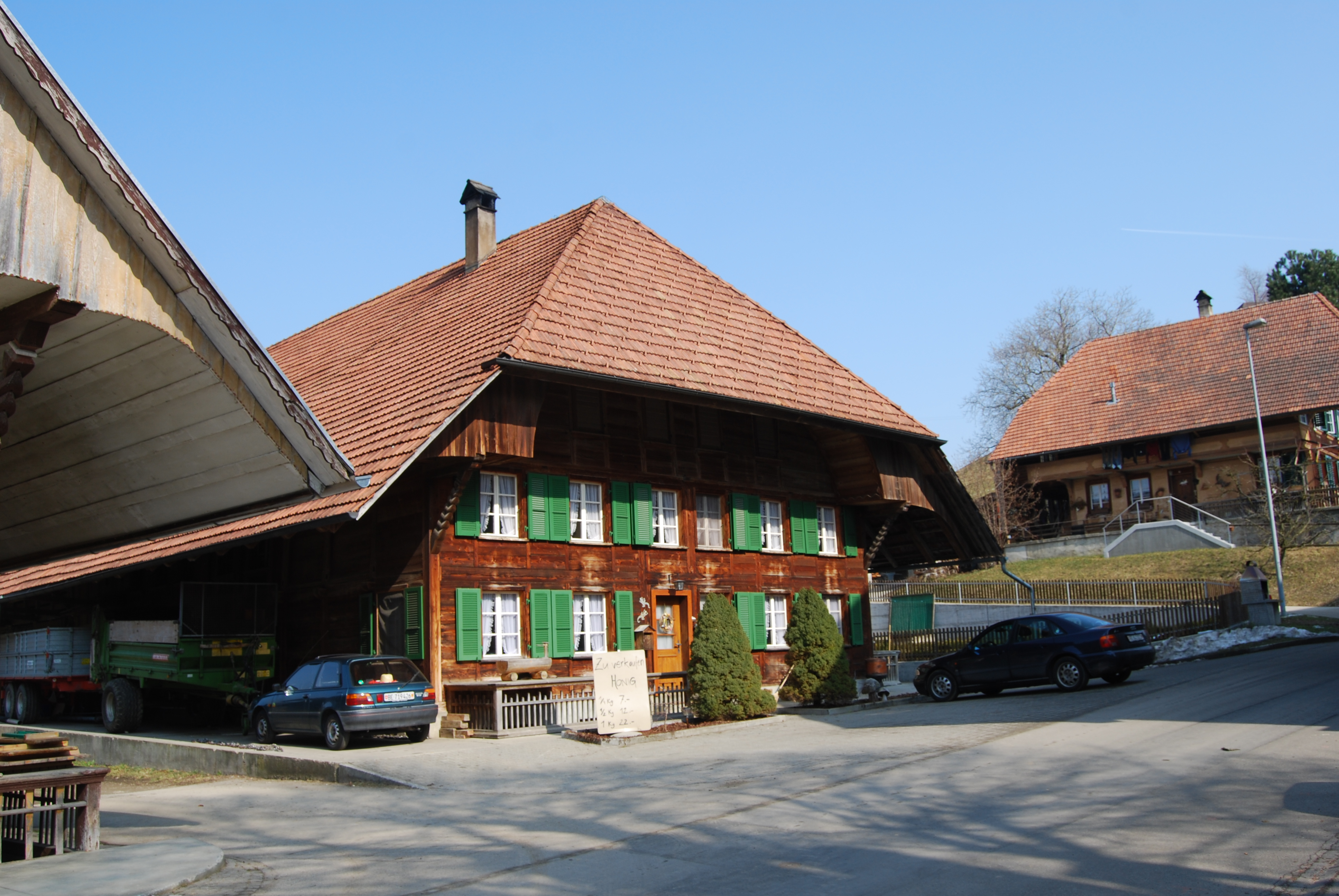 Trachselwald, canton of Bern, SwitzerlandEsperanto: Trachselwald, Kantono Berno, Svislando